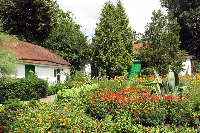 Birthplace of Mykhaylo